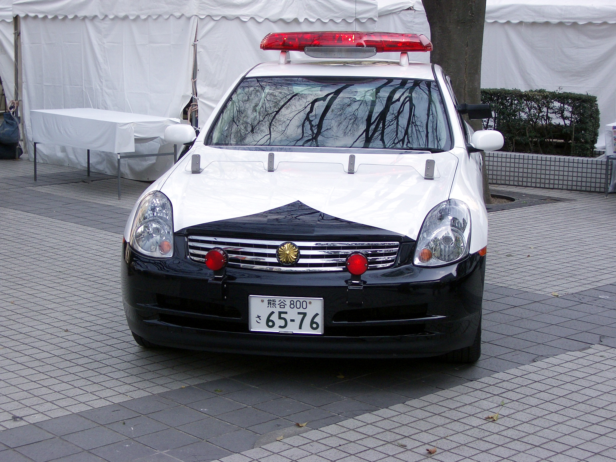 Japanese NISSAN SkylineV35 3.50GT police car in Saitama prefecture.